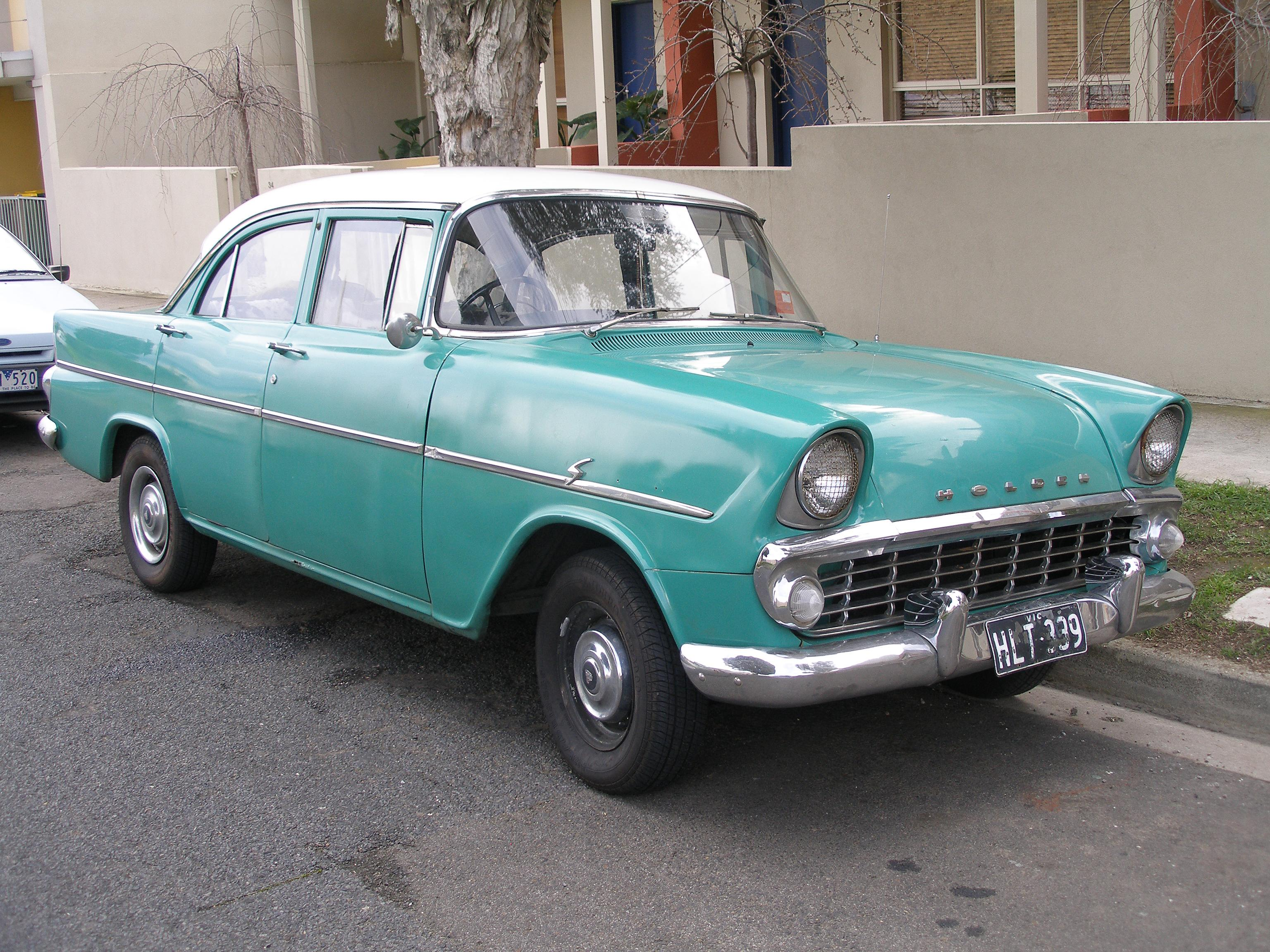 1961–1962 Holden EK Special sedan (with a 1960–1961 Holden FB bonnet) photographed in Preston, Victoria, Australia.